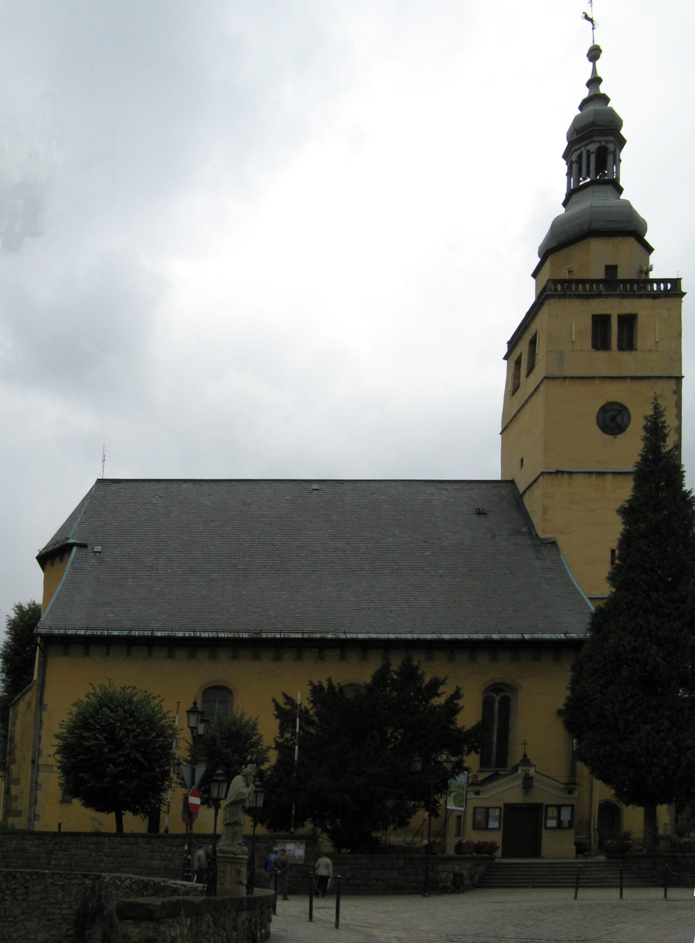 Holiest Virgin Maria church; Kowary